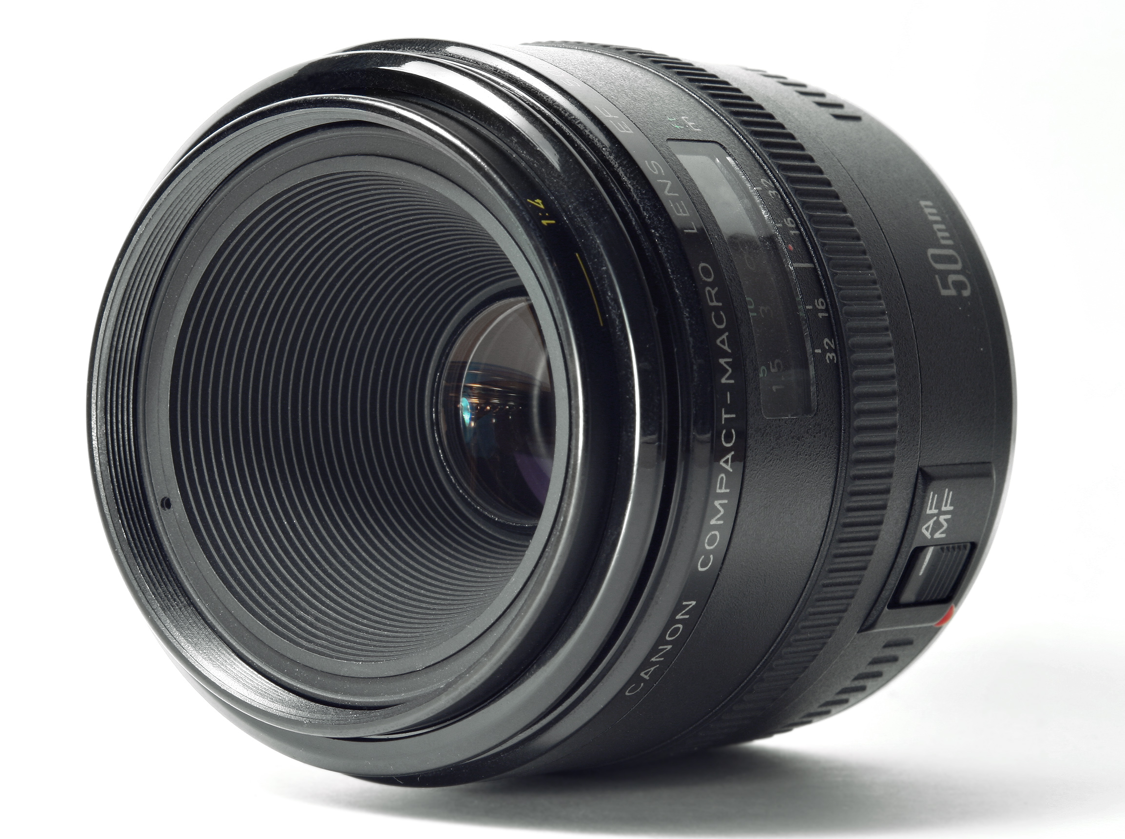 Canon EF 50mm Compact Macro